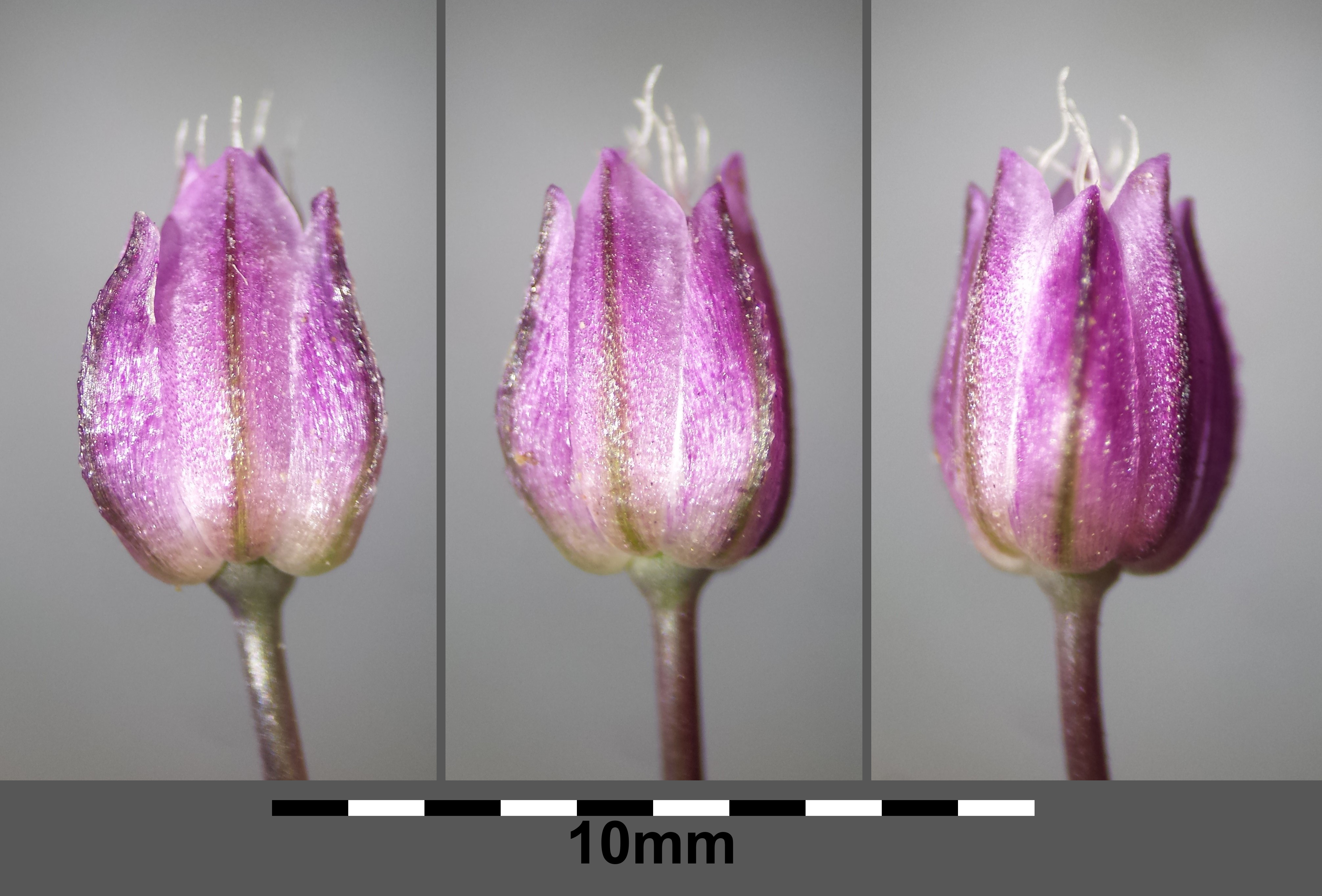 Flower Taxonym: Allium rotundum ss Fischer et al. EfÖLS 2008 ISBN 978-3-85474-187-9 Location: Steinberg near Niederhollabrunn, district Korneuburg, Lower Austria - ca. 375 m a.s.l. Habitat: semi-dry grassland